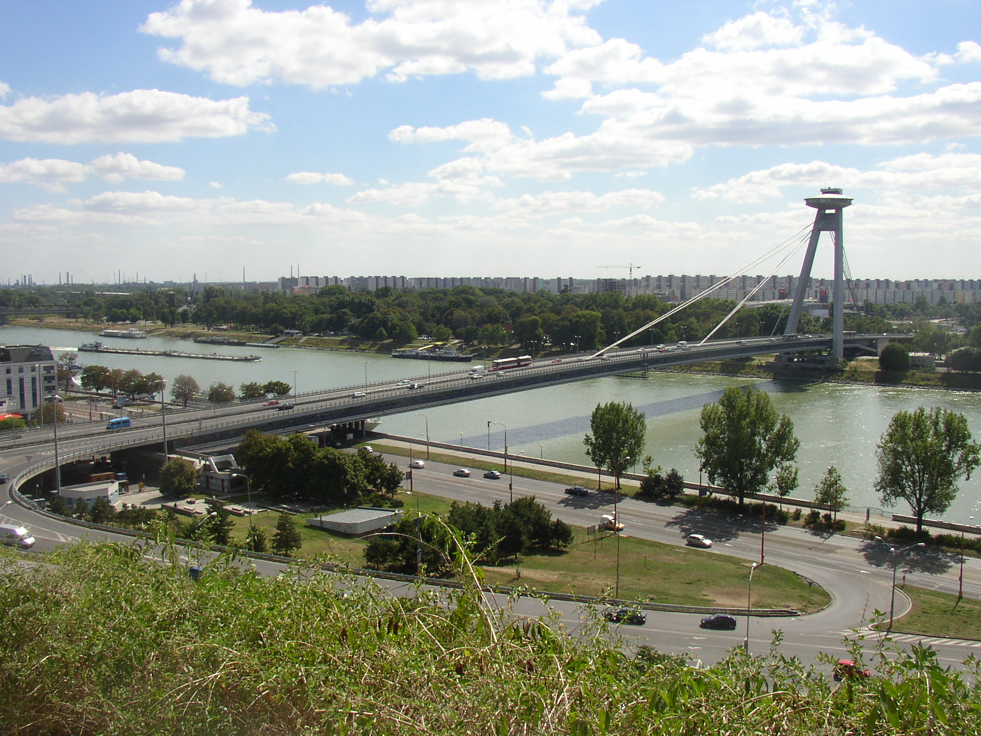 Bratislava, New Bridge as seen from the castle hill, September 2004. View to SE over Danube and Sady Janka Kráľa (Janko Kráľ Park) towards Petržalka.